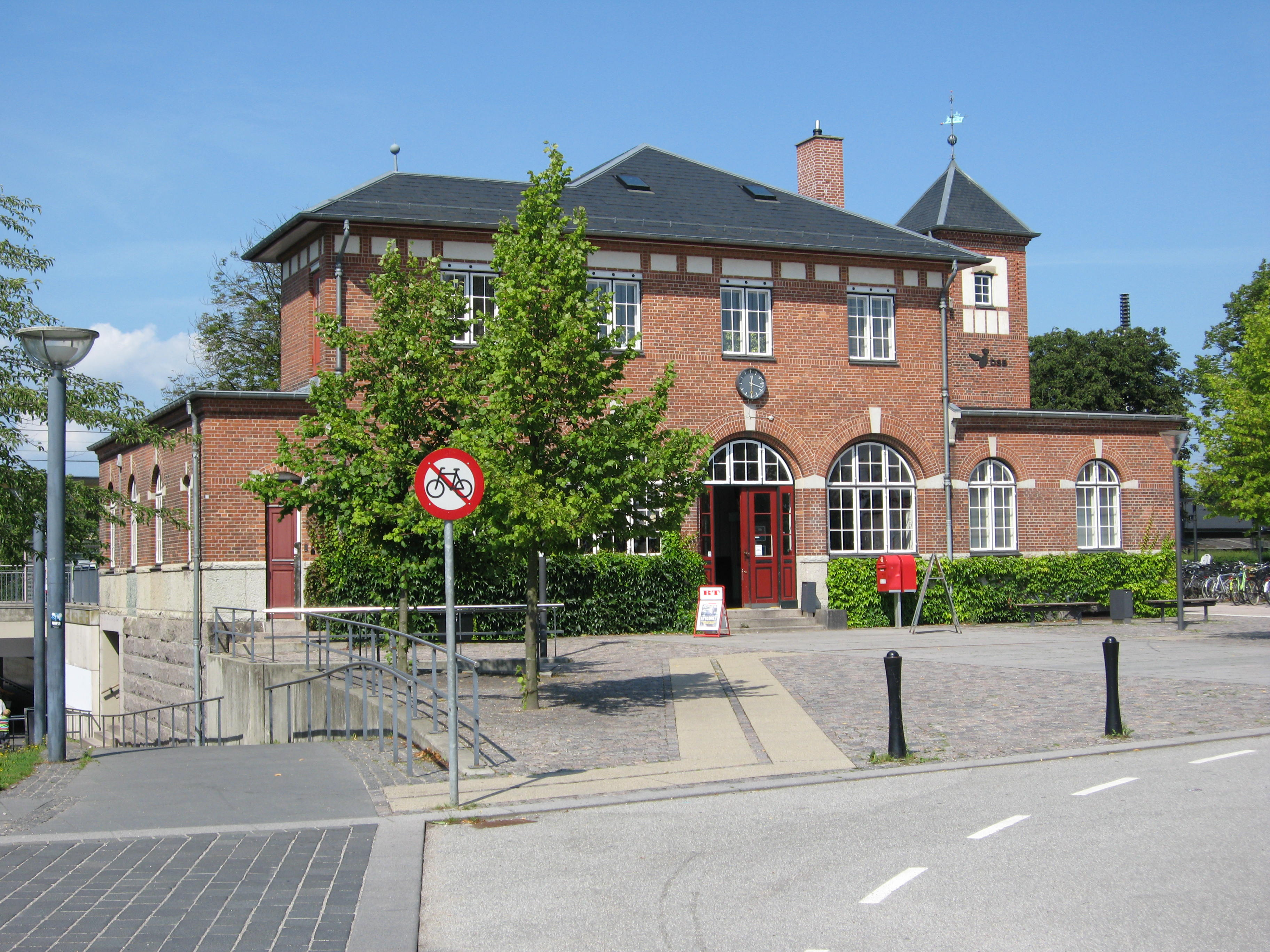 Humlebæk Station, railroad station in Humlebæk, Zealand, Denmark. 1895-97 by architect Heinrich Wenck.